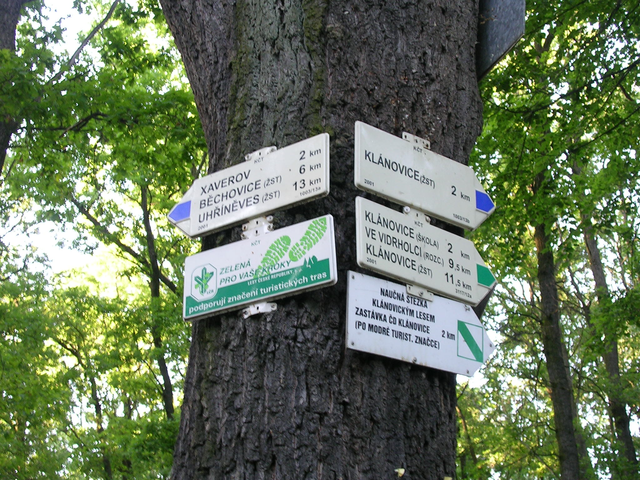 Klánovice, Prague, the Czech Republic. A hiking fingerpost in Nové Dvory.